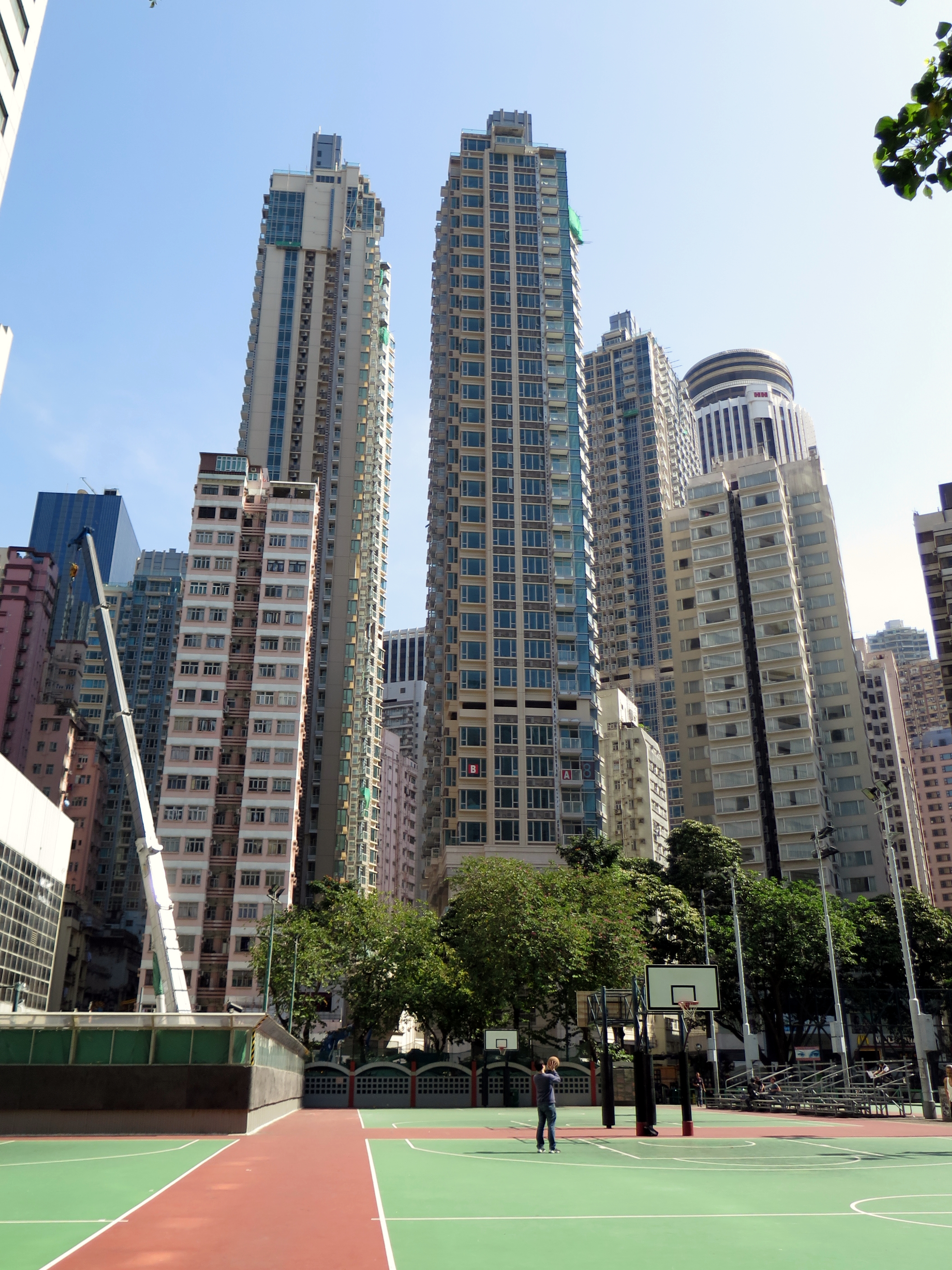 The Avenue Phase 2